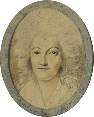 Portrait of Queen Marie Antoinette of France